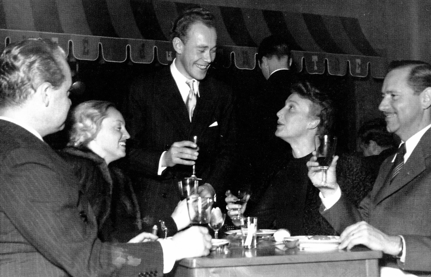 Tore Wretman at the Theater Grill (in the middle) toasts with actor Max Hansen and director Börje Larsson and their respective wives.